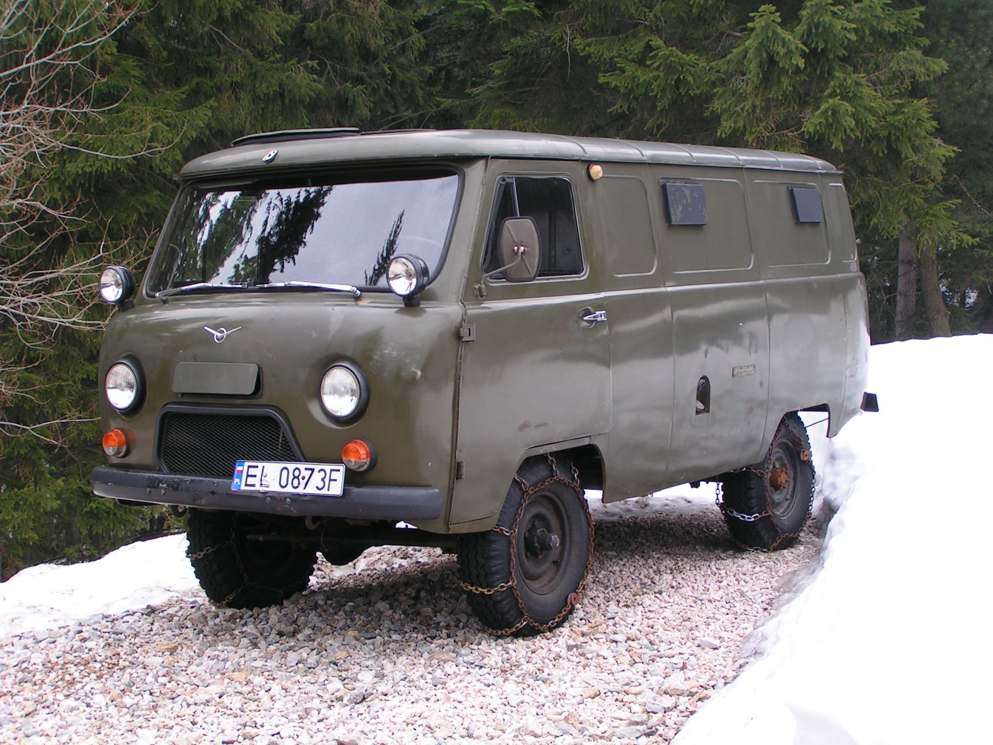 UAZ-3741 (modification of UAZ-452) Bus near Kamieńczyk Waterfall in Poland